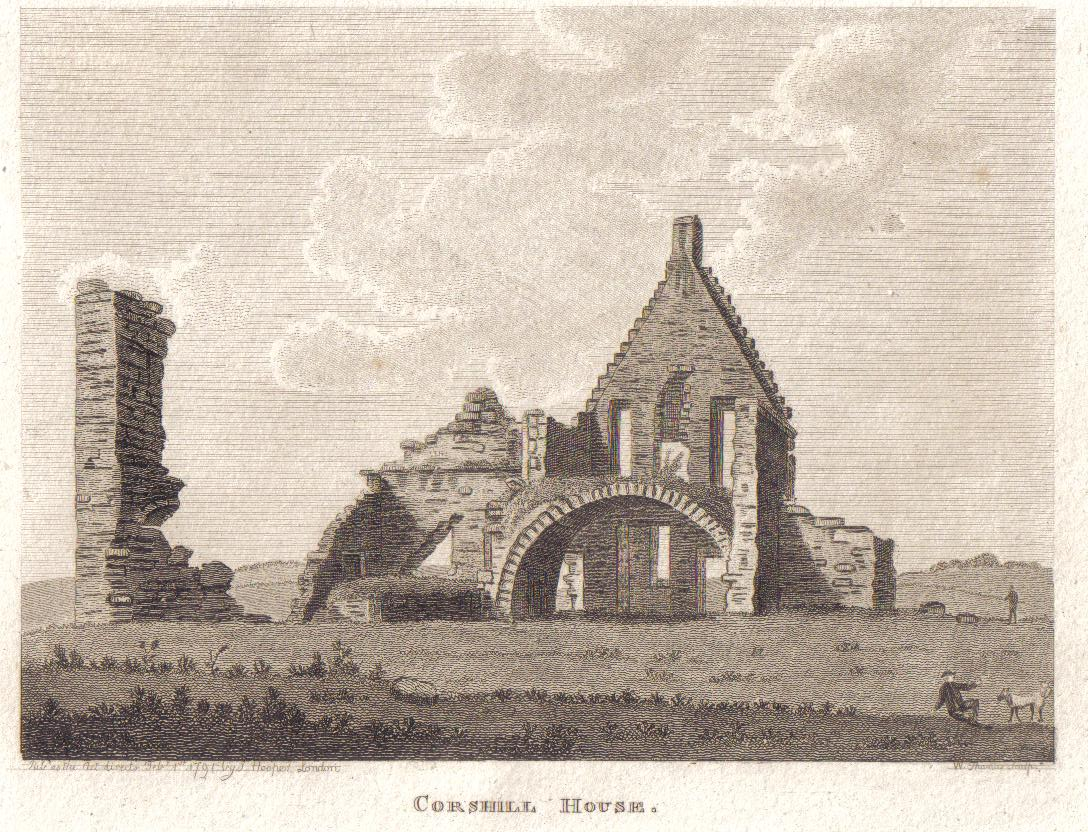 A 1791 View of Corsehill House on the site of what is locally called Ravenscraig Castle. Only the 'Tower' of Masonry remains today.